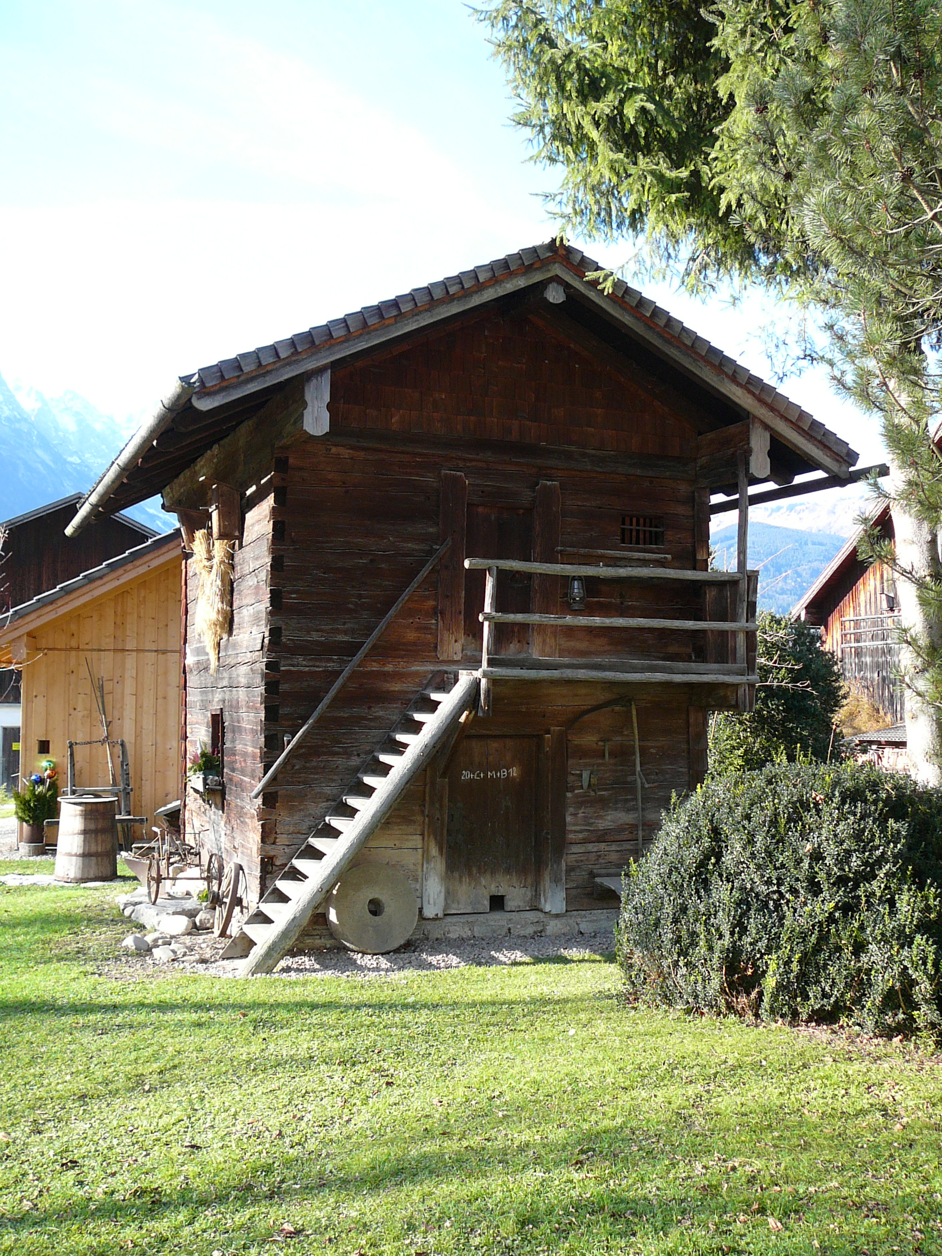 Crob storage at Kuchl, Kellau. Austria